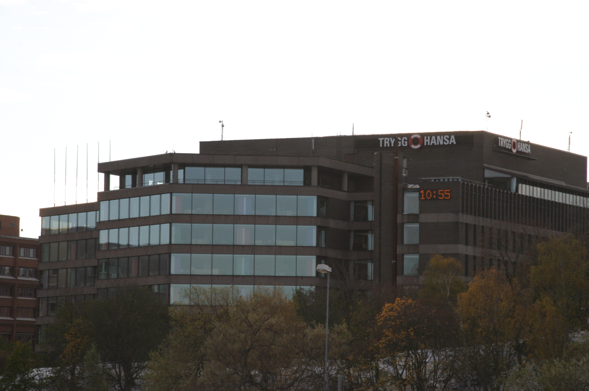 Photo: Soman